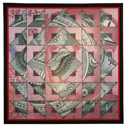 Fly Paper, a quilt created by John Lefelhocz